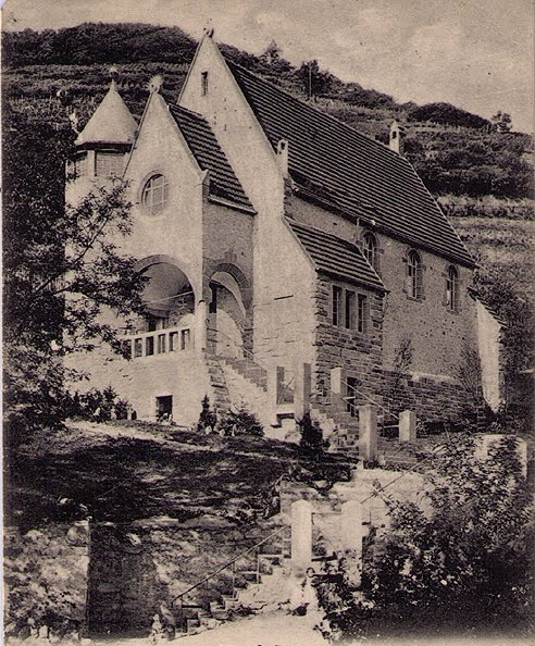 Synagogue of Heppenheim in Germany (Hesse), built in 1900, destroyed by the nazis in 1938 during the Kristal Nacht